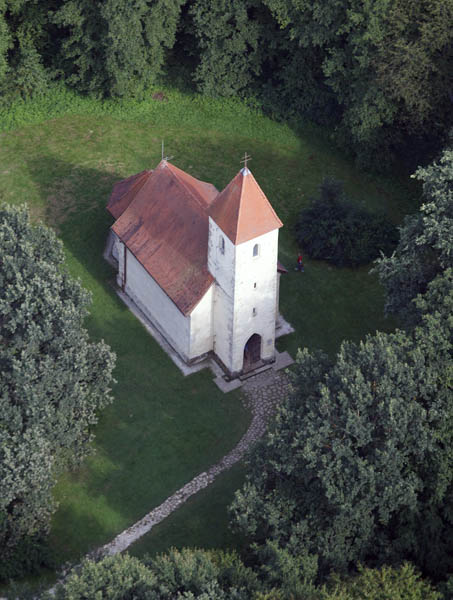 Velemér, Vas county, Hungary, aerial photography